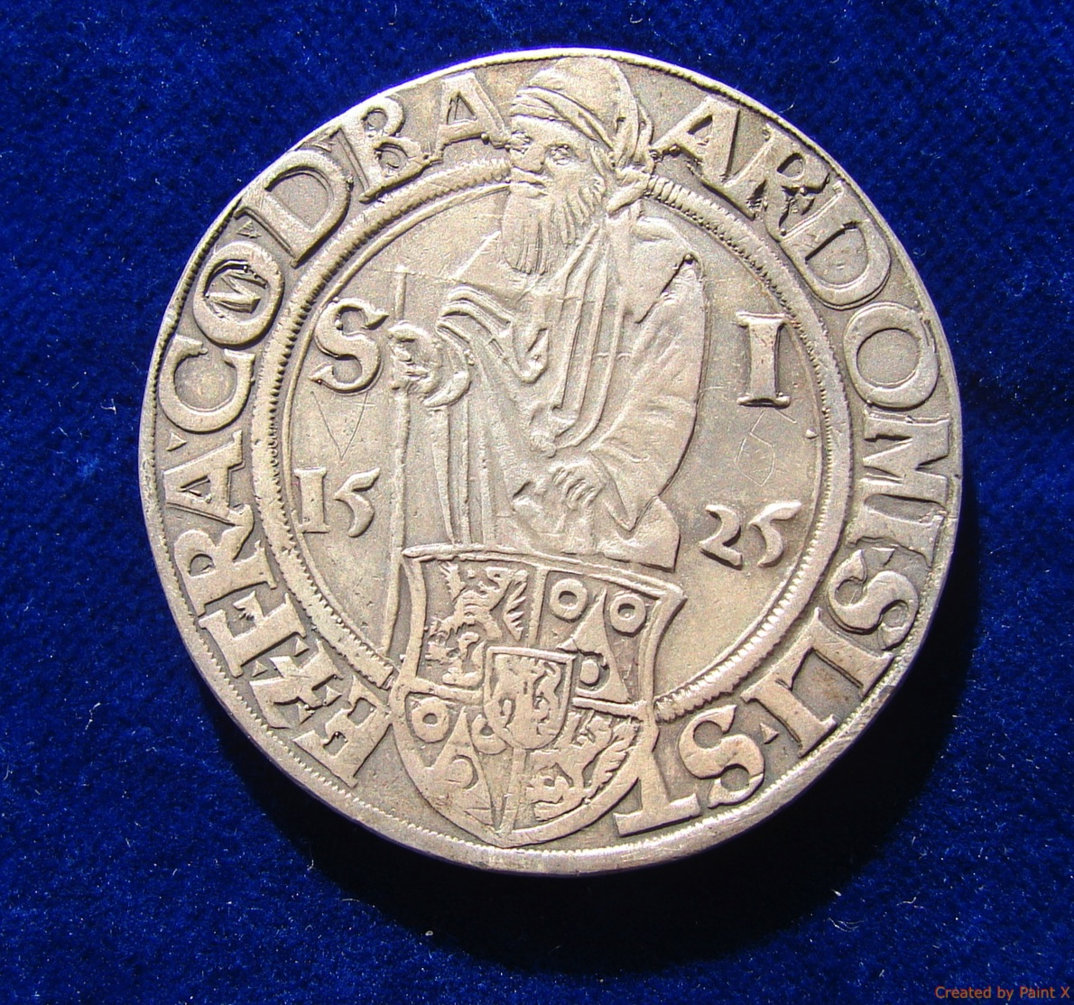 Very fine electrotype copy of a 1525 Joachimsthaler, 39 mm in diameter and 30.09 g in weight. St Joachim is depicted above the arms of the House of Schlick. The inscription reads ar(ma) domi(norum) Sli(ckorum) Ste(phani) e(t) 7 fra(trum) com(itum) d(e) Ba(ssano)—"arms of the Lords of Schlick, Stefan and his seven brothers, Counts of Bassano". Schulten 4383; Davenport 8142.